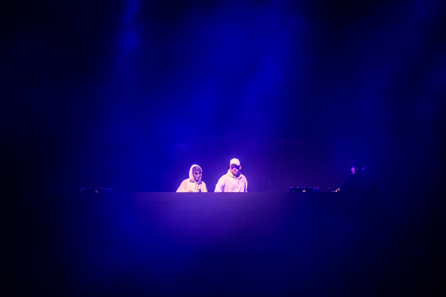 Broiler at the main stage at Stavernfestivalen. The concert took place on 14. July 2018 in Stavern. Lineup:Mikkel Buxrud Christiansen (disc jockey)Simen Auke (disc jockey)